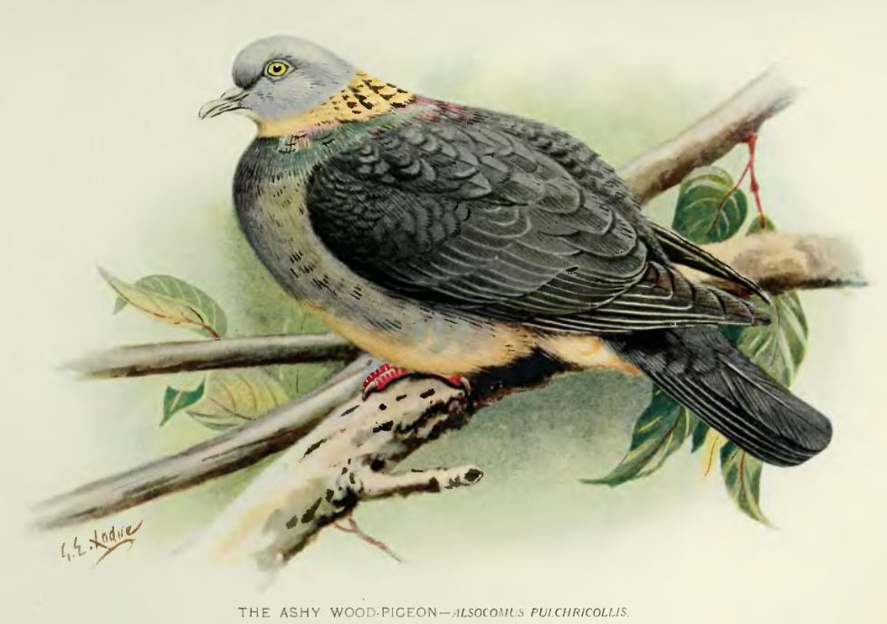 Columba pulchricollis